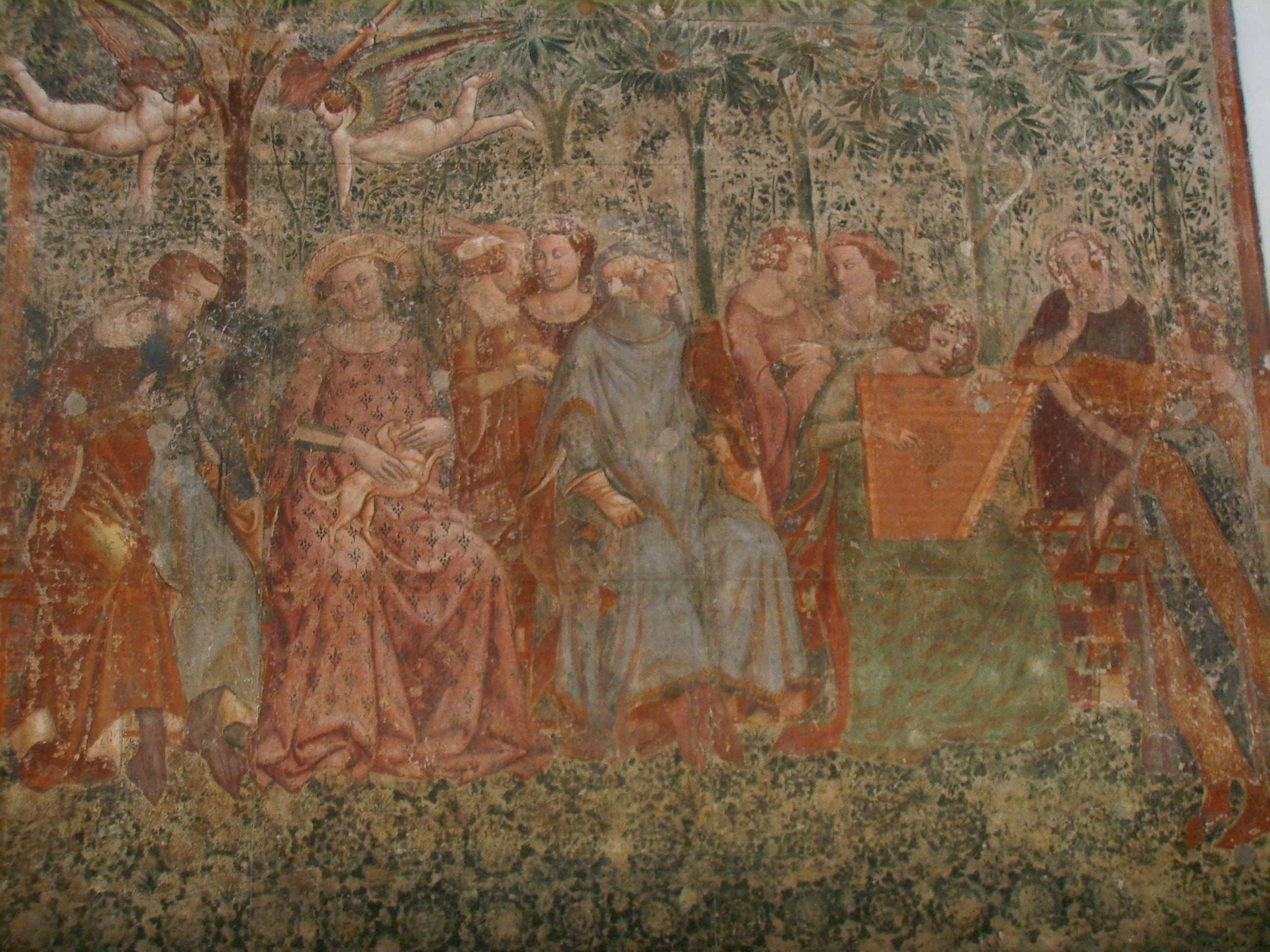 Camposanto Monumentale (Monumental graveyard) in Pisa, Italy: Trionfo della Morte ("Triumph of Death") by Buonamico Buffalmacco (Detail: A courtly scene).